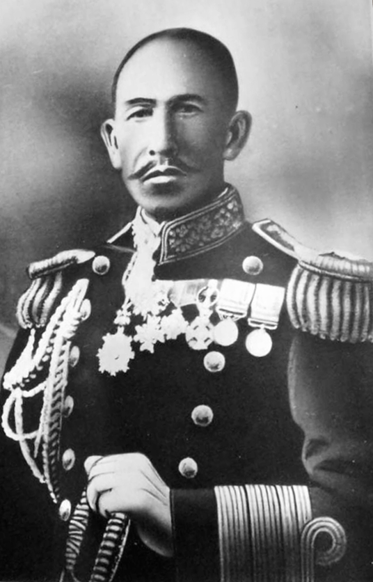 Fujii Kouichi was an Imperial Japanese Navy Full Admiral